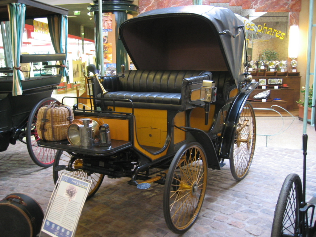 1893 Peugeot Type 8 - Musée Sochaux (Automobile year from the museum placard in a newer photo of this same automobile.)